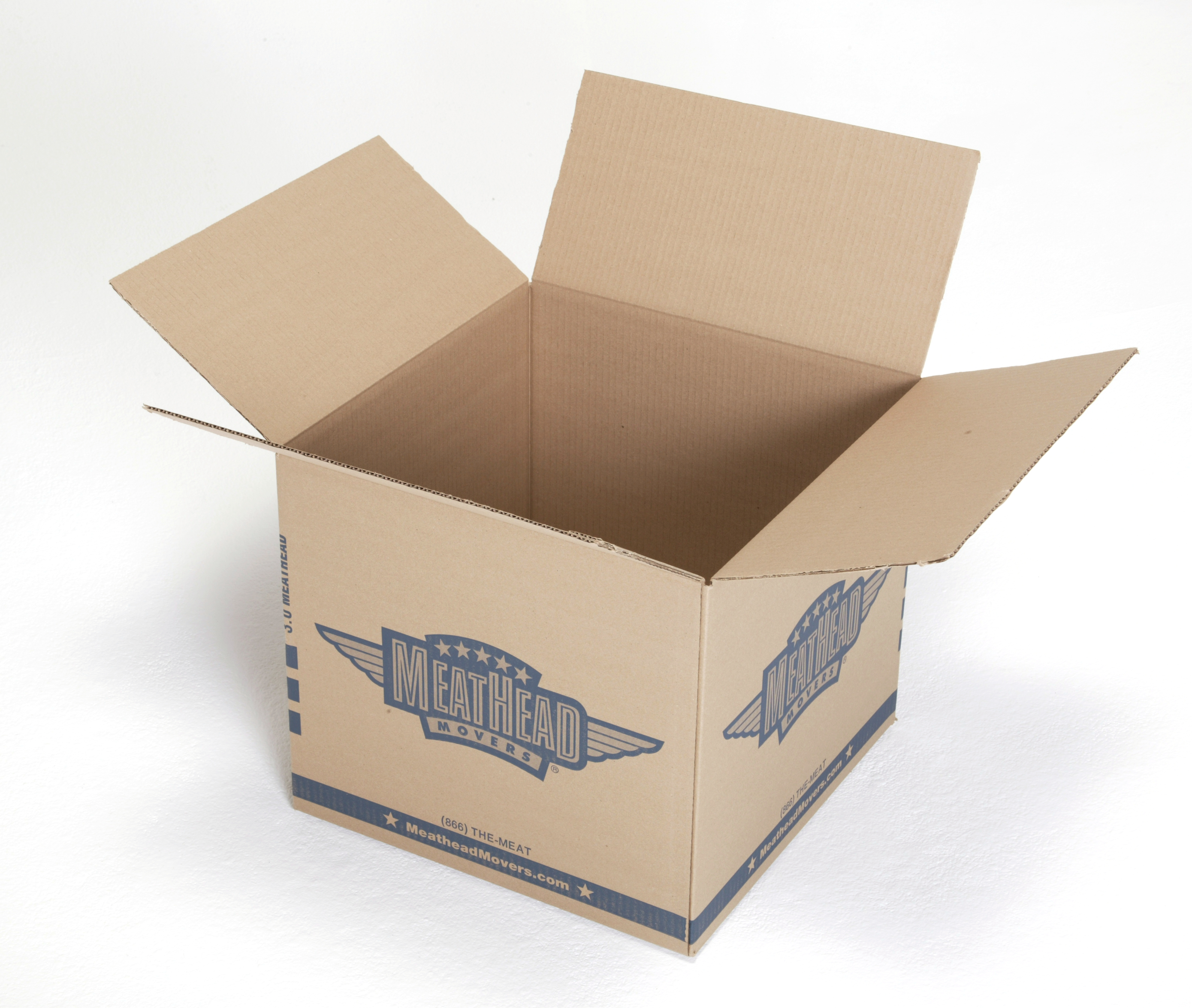 Medium, open cardboard box